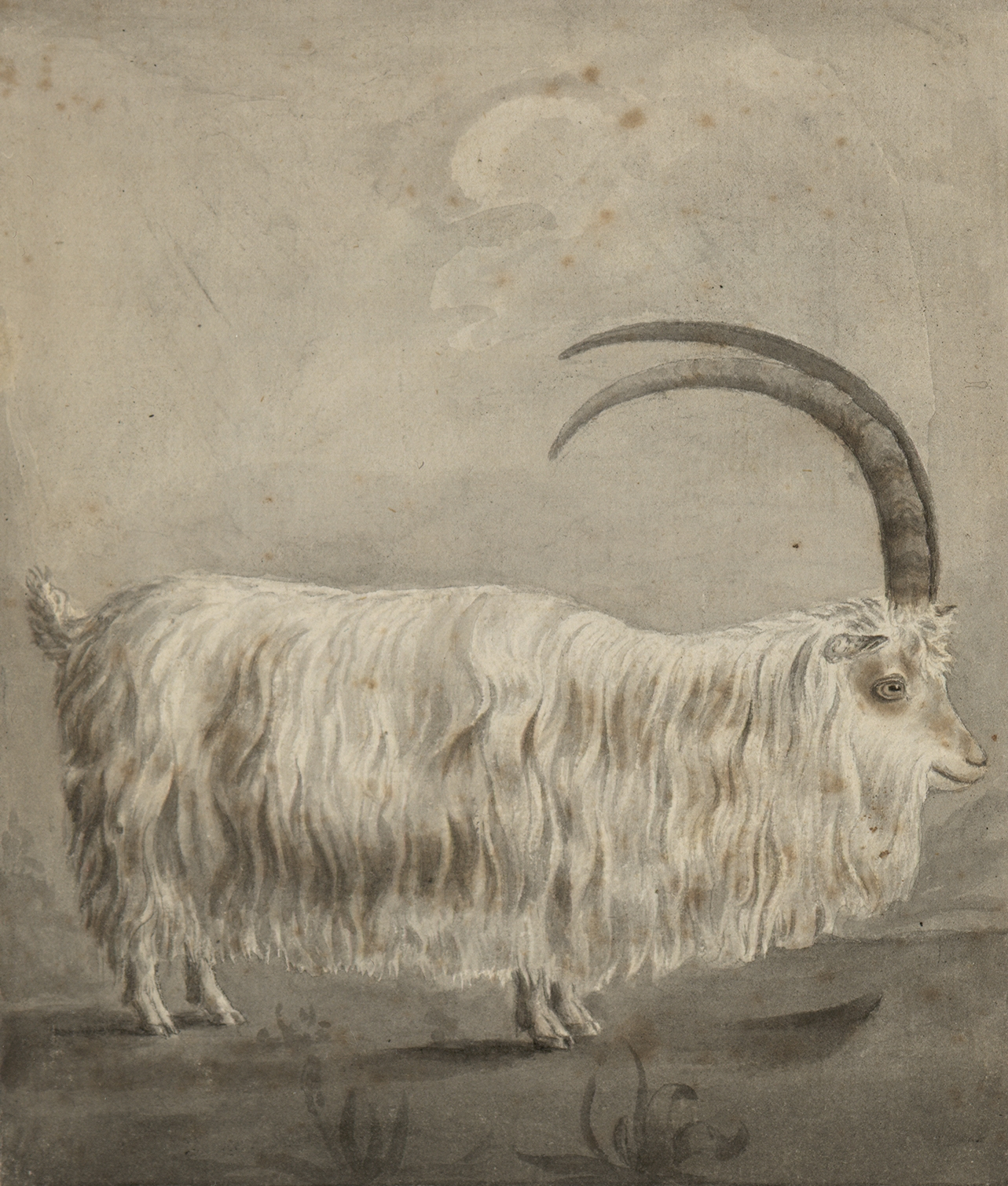 An image from a set of 8 extra-illustrated volumes of A tour in Wales by Thomas Pennant (1726-1798) that chronicle the three journeys he made through Wales between 1773 and 1776. These volumes are unique because they were compiled for Pennant's own library at Downing. This edition was produced in 1781. The volumes include a number of original drawings by Moses Griffiths, Ingleby and other well known artists of the period. Thomas Pennant (1726-1798)